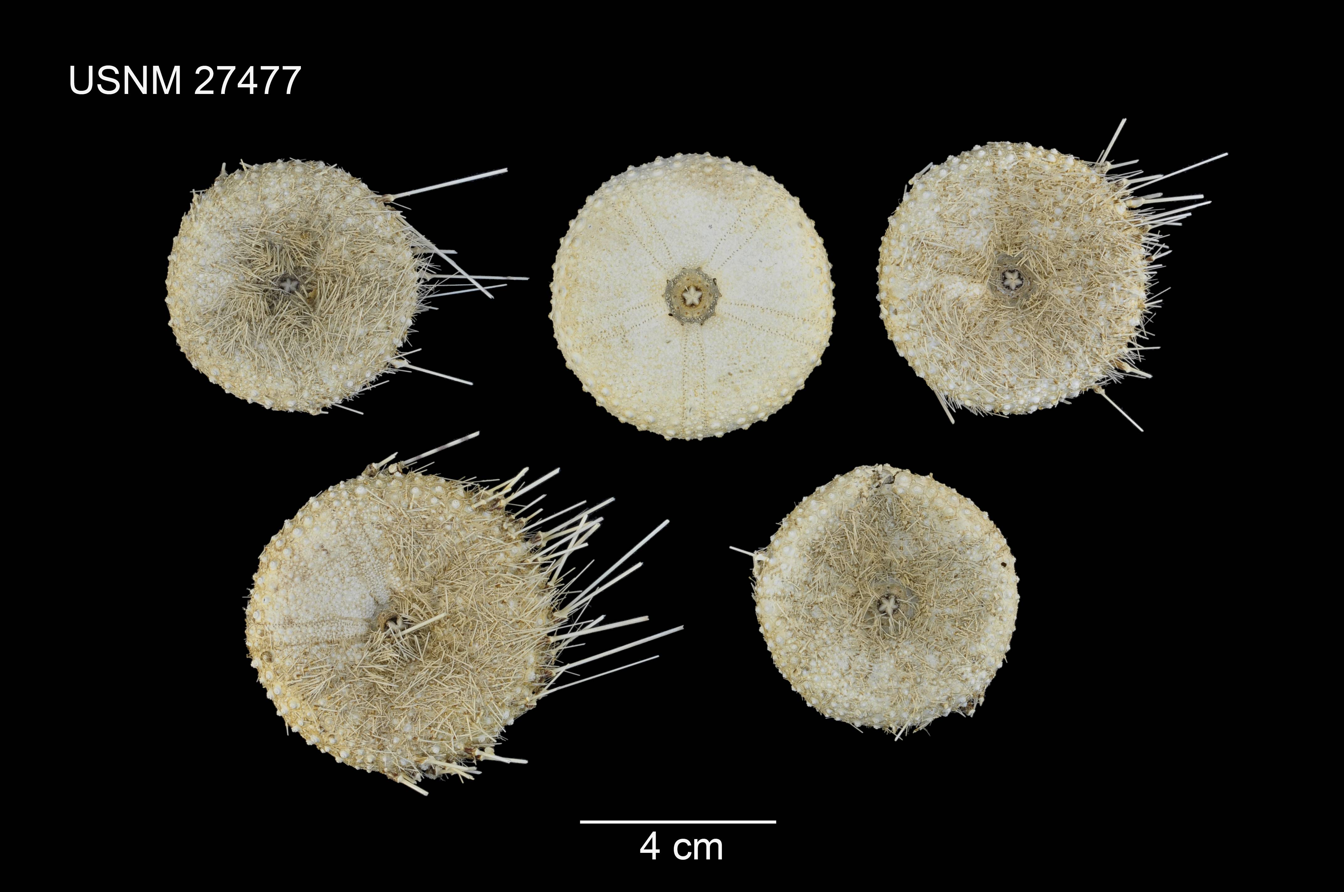 PRESERVED_SPECIMEN; Preparations: Dry; Chaetodiadema pallidum Agassiz & Clark, 1907; Individual count: 6; Type status: SYNTYPE; Identified by: Agassiz, Alexander E.; Clark, Hubert L.; Event date: 19020522T00:00:00Z; Additional description: ventral